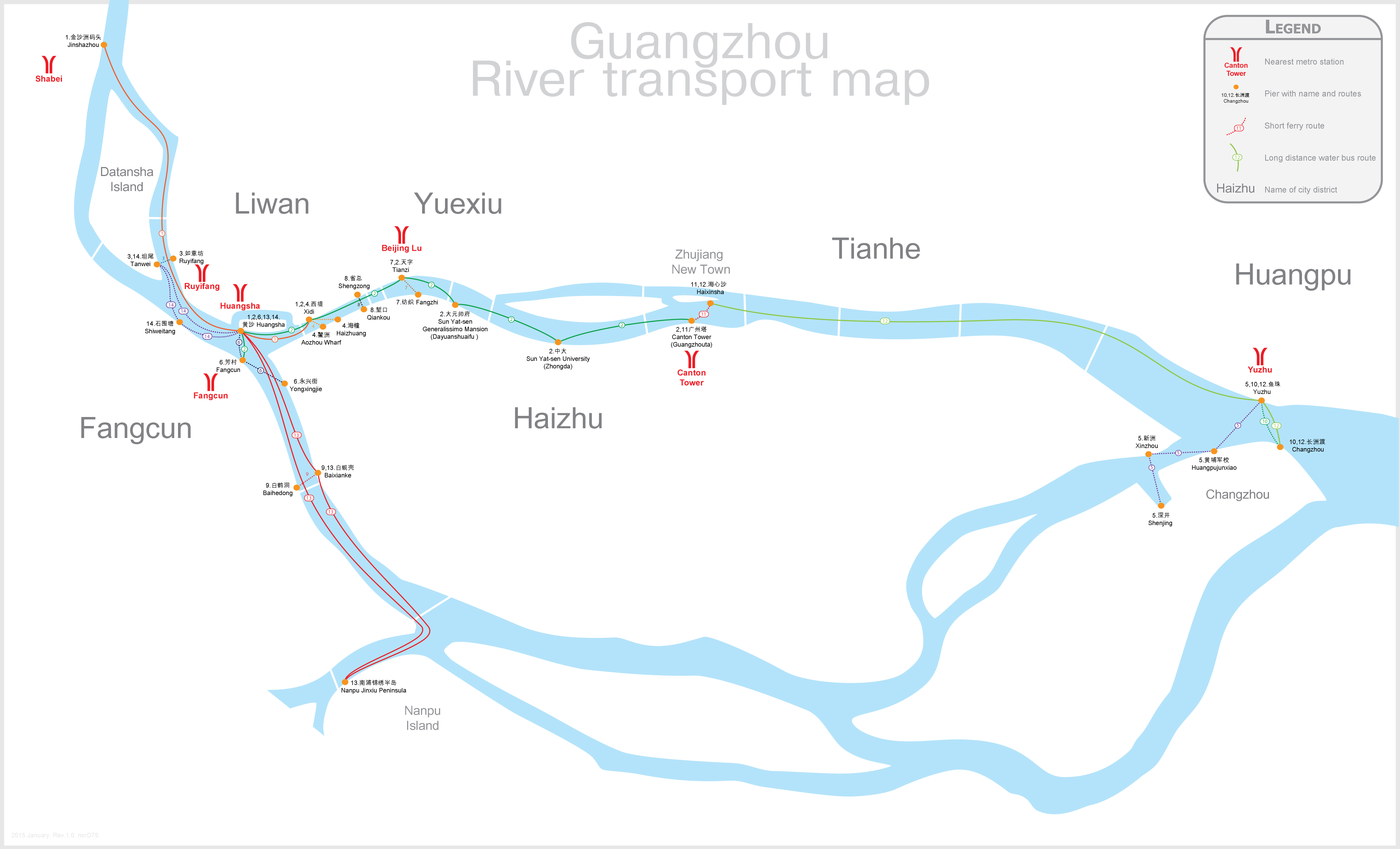 Pearl River Guangzhou ferry map